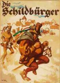 Die Schildbuerger, old book cover